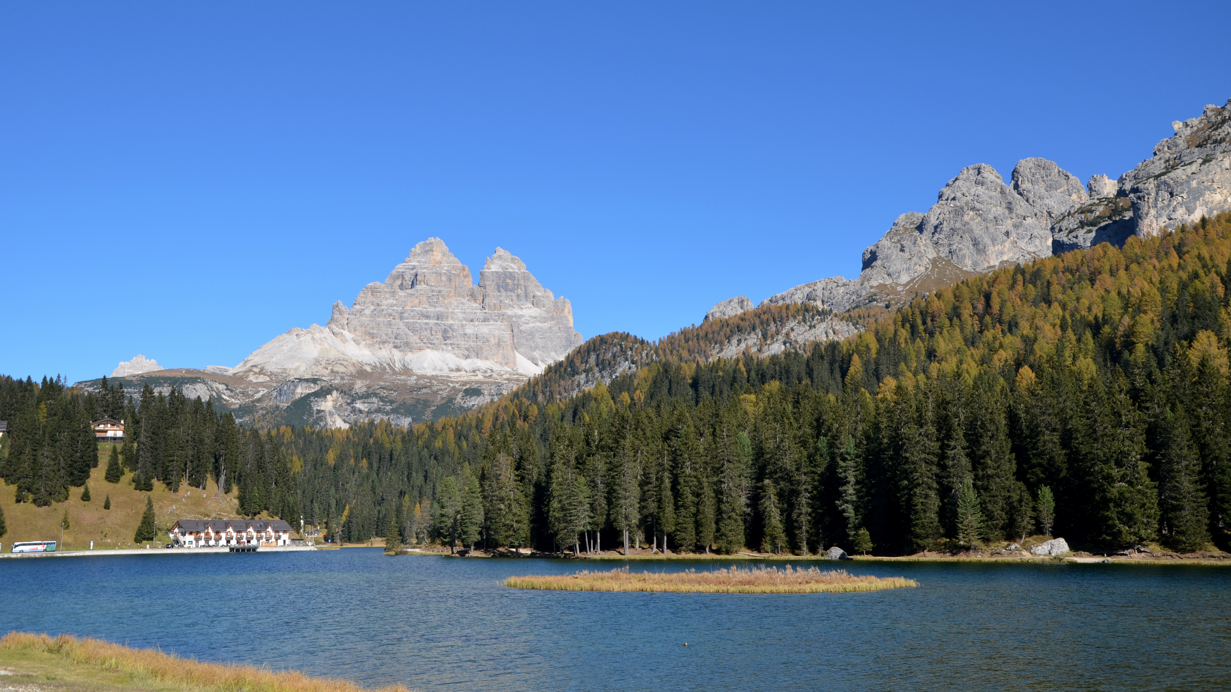 Misurina Ocktober